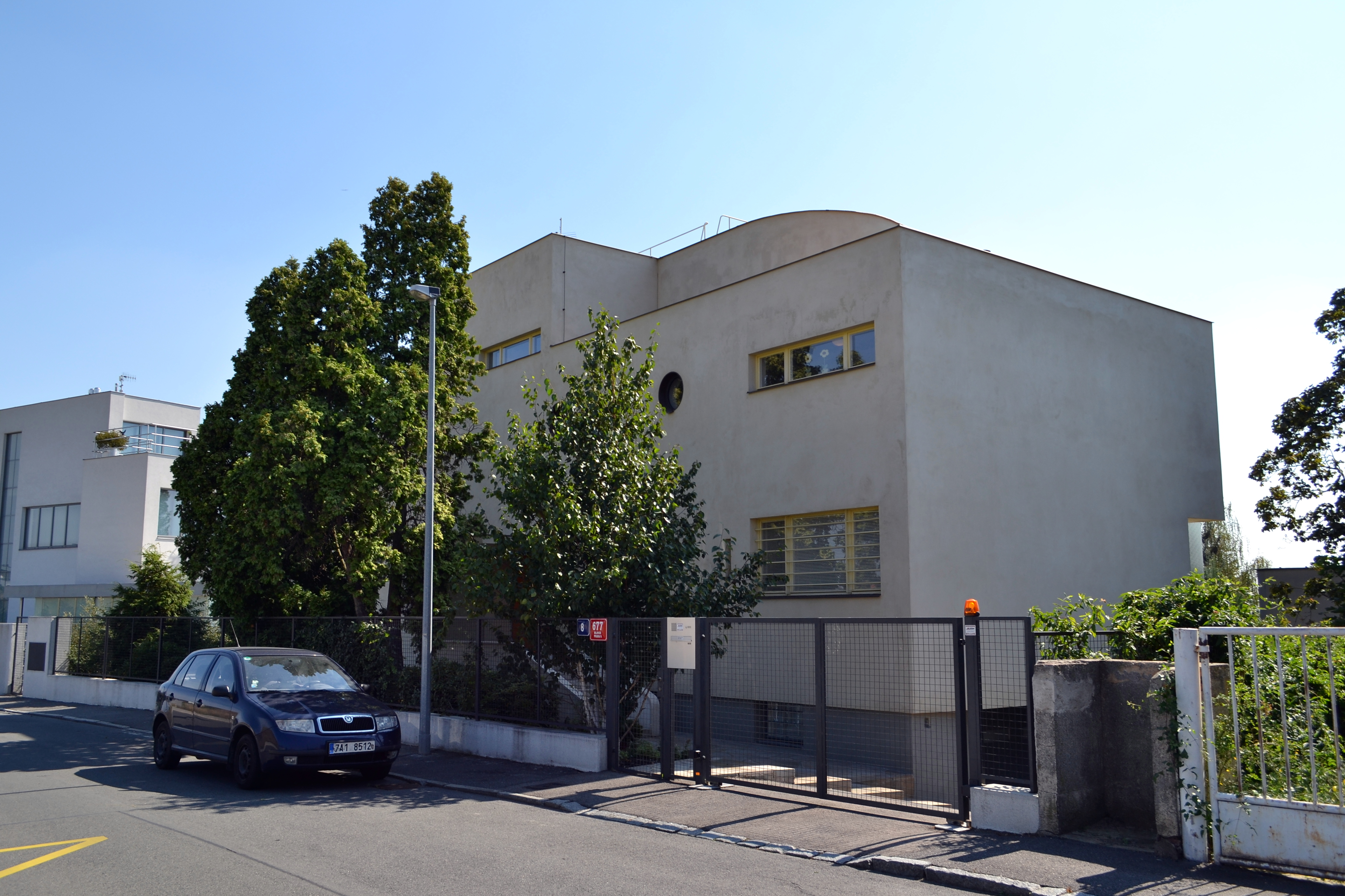 Neherovská 677/8, Prague 6-Dejvice, Czech Republic.